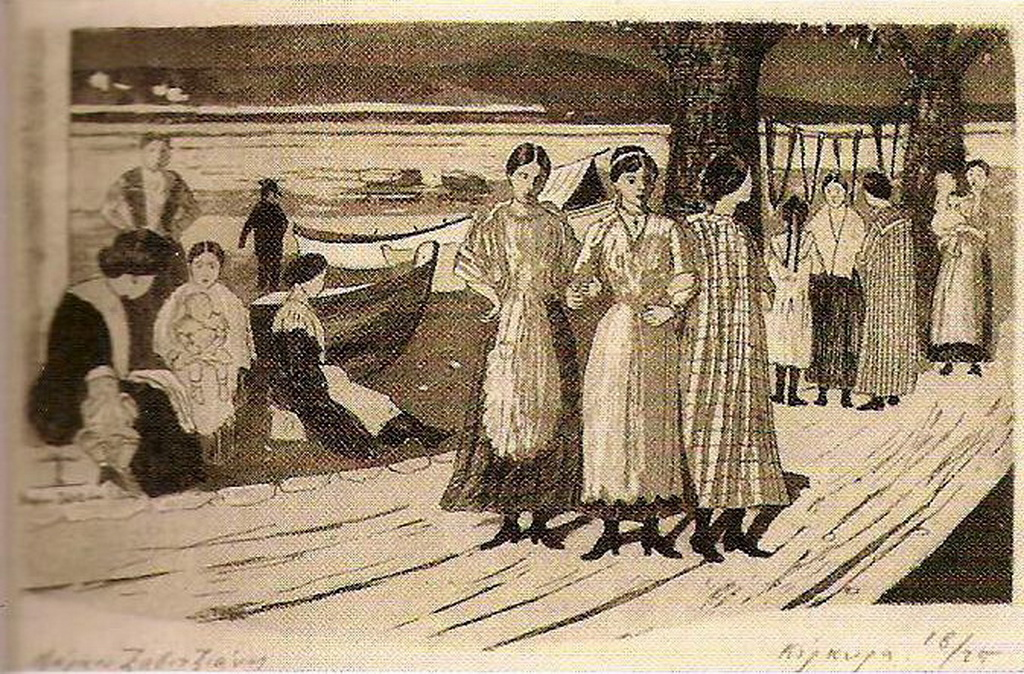 Corfu, etching.